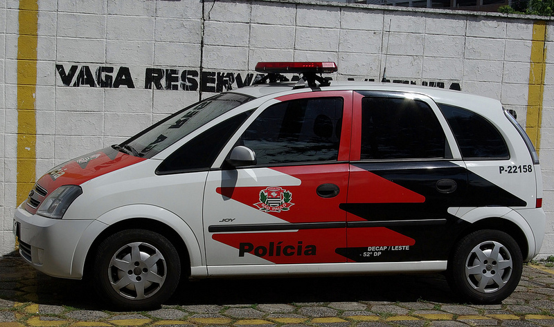 Sao Paulo police car